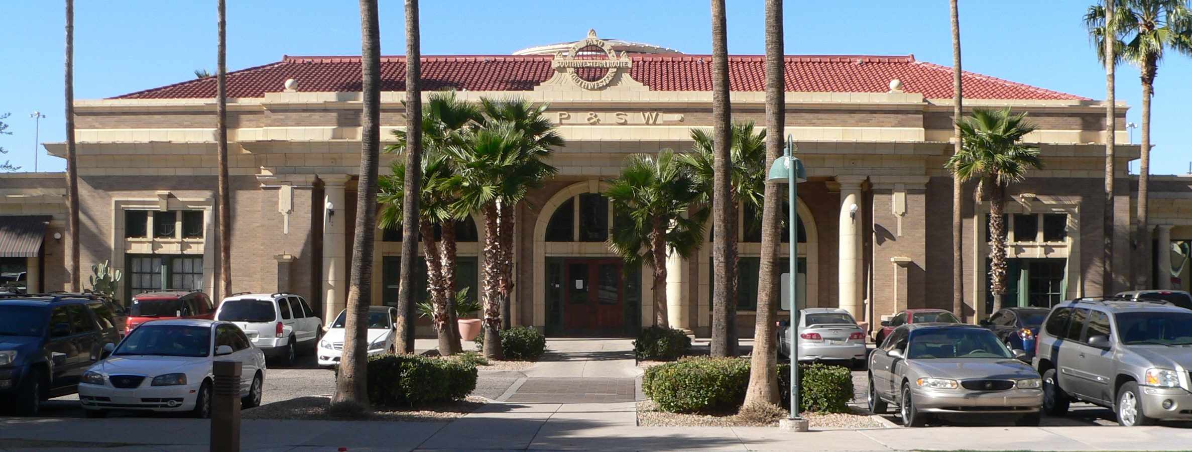 El Paso & Southwestern Railroad Depot, located south of Congress Street between Granada Avenue and Interstate 10 in Tucson, Arizona. Central portion of building, seen from the east.